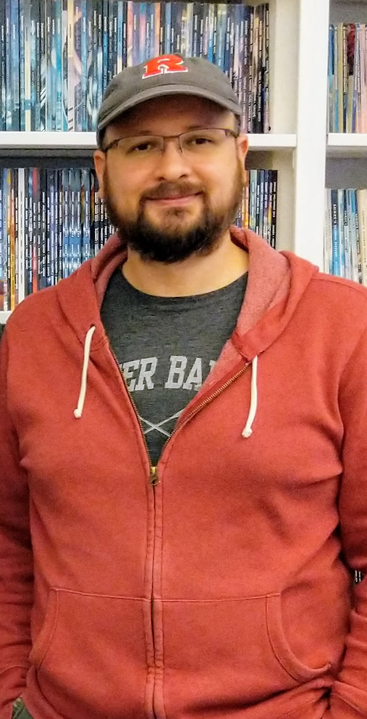 I, Jason Ellis, hereby place the cropped image of Trevor Quachri (Trevor Quachri at Dell Magazine offices, 8 Oct 2019.jpg) in the public domain and release rights to anyone and everyone.